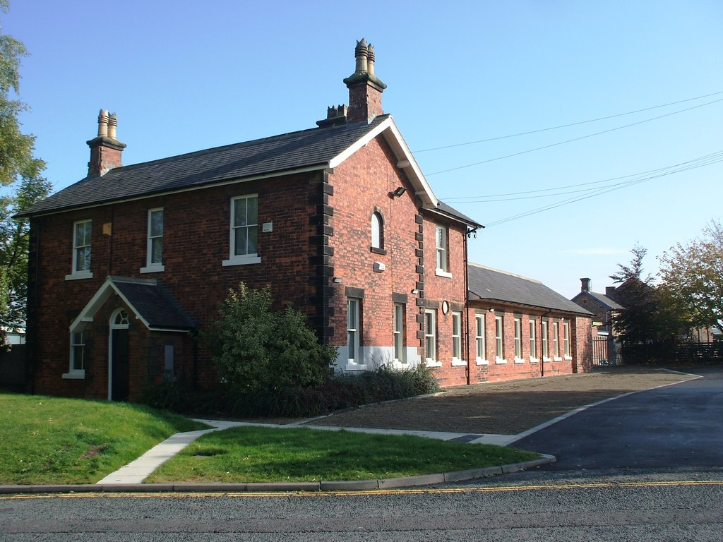 Stokesley railway station (site)Opened in 1857 by the North Eastern Railway, this station on the former line from Picton to Battersby closed in 1954 to passengers, and completely in 1964. View east from the former level crossing. The platform for Battersby ran along the side of the buildings, the Picton platform was further to the right.